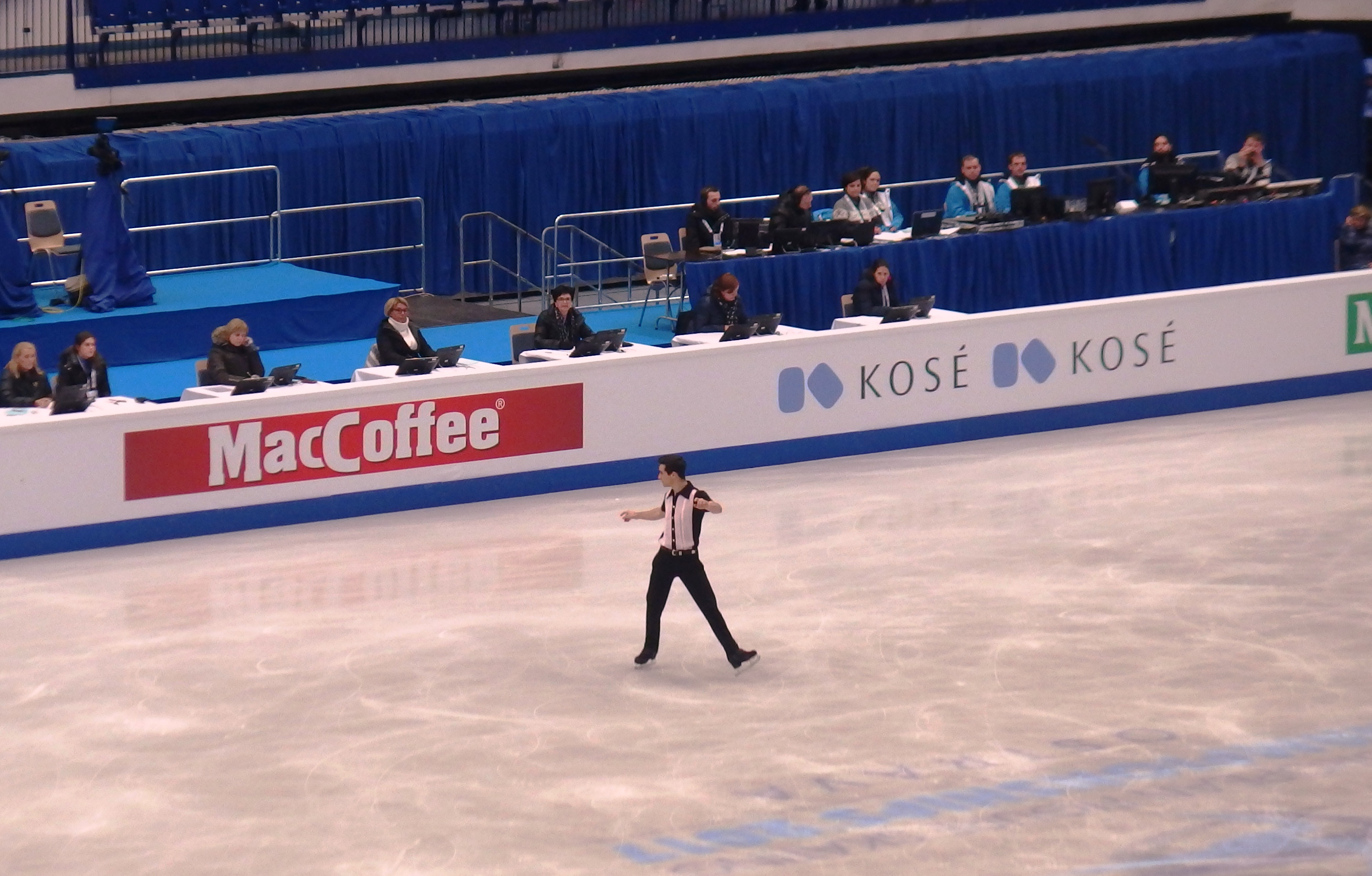 Ostrava, Czech Republic, Ostravar Arena. 2017 European Figure Skating Championships.